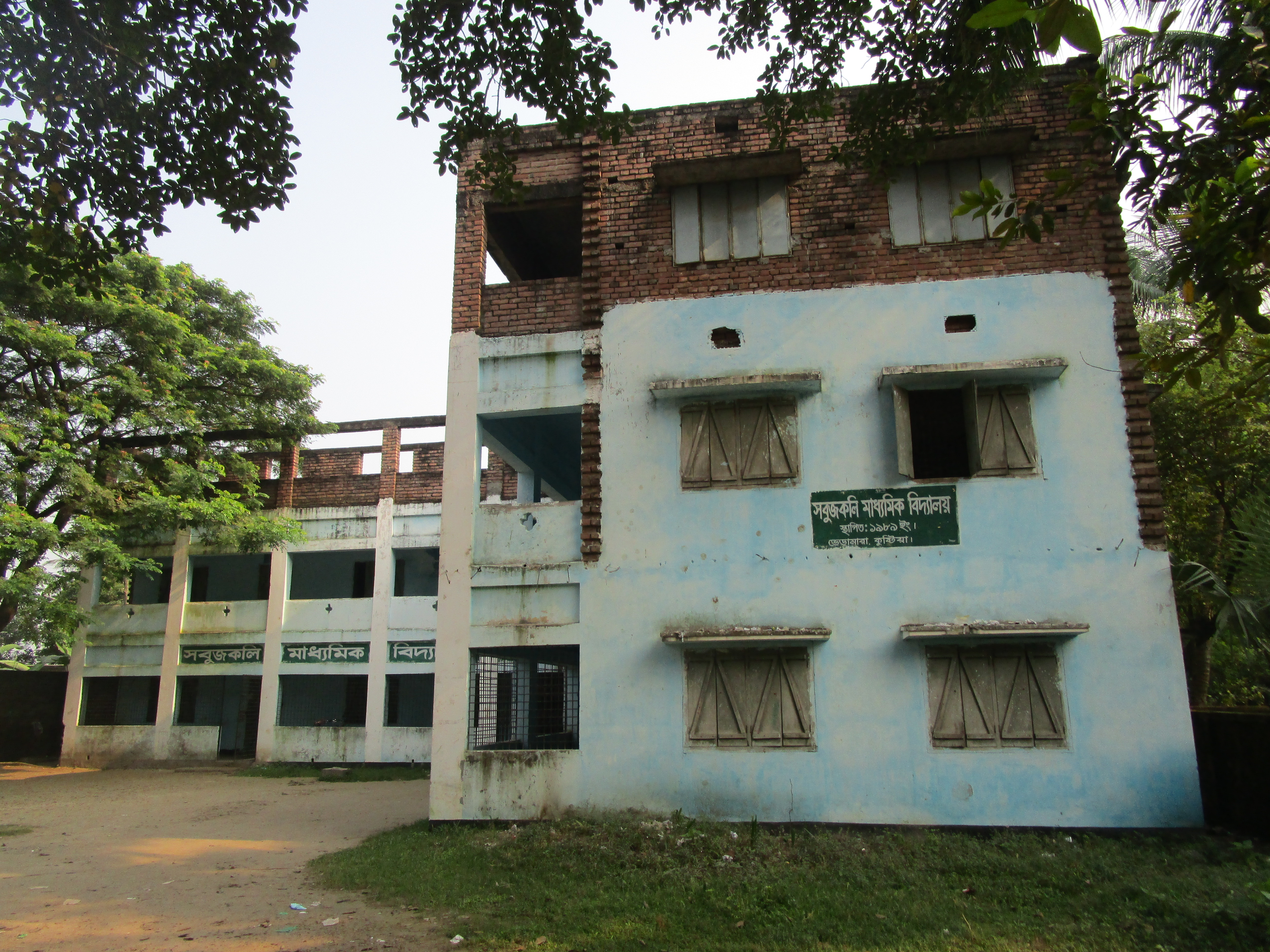 Sabujkali High School at Veramara, Kushtia.